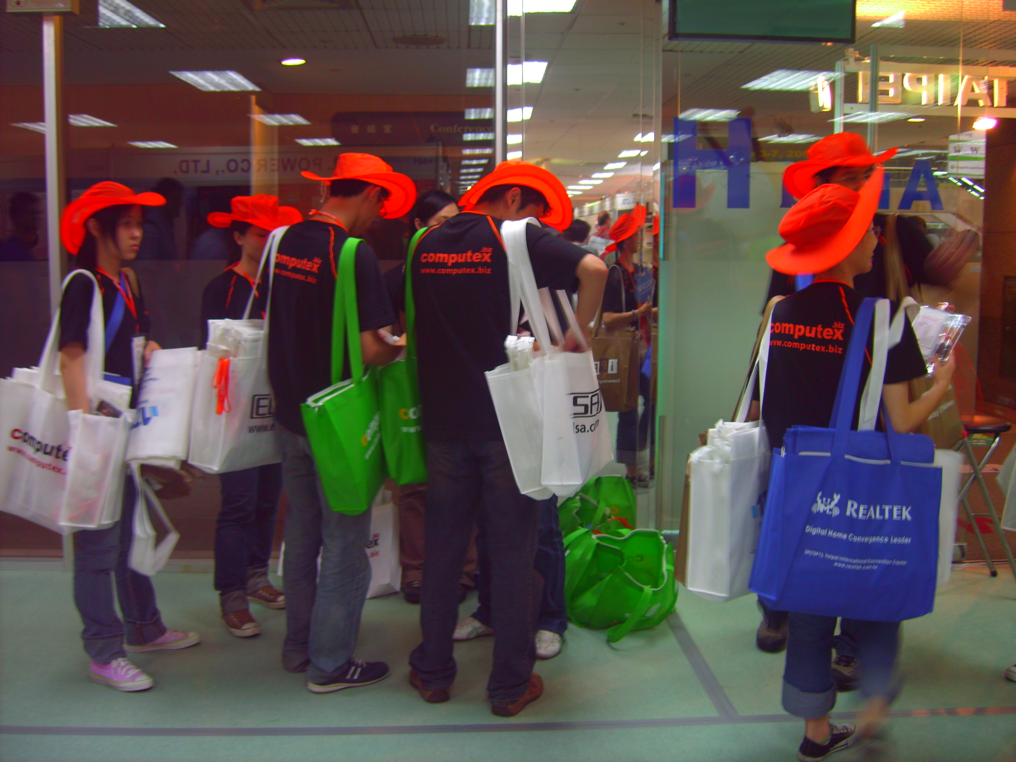 2007 COMPUTEX Taipei: TCA IPPC Team.